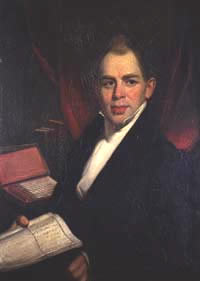 Peter Parker (1804–1888), American physician and missionary